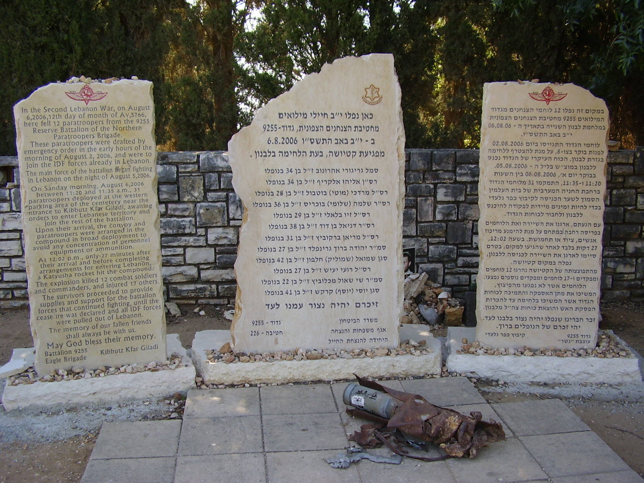 memorial of paratroopers, kfar giladi, israel אנדרטה ל12 צנחנים שנהרגו מטיל קטיושה ליד כפר גלעדי במלחמת לבנון השנייה